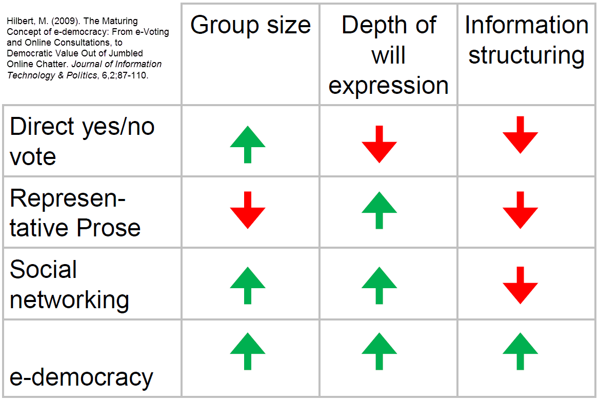 Table of e-democracy trade-offs, based on Hilbert, M. (2009). The Maturing Concept of e-democracy: From e-Voting and Online Consultations, to Democratic Value Out of Jumbled Online Chatter. Journal of Information Technology & Politics, 6, 2; 87-110.